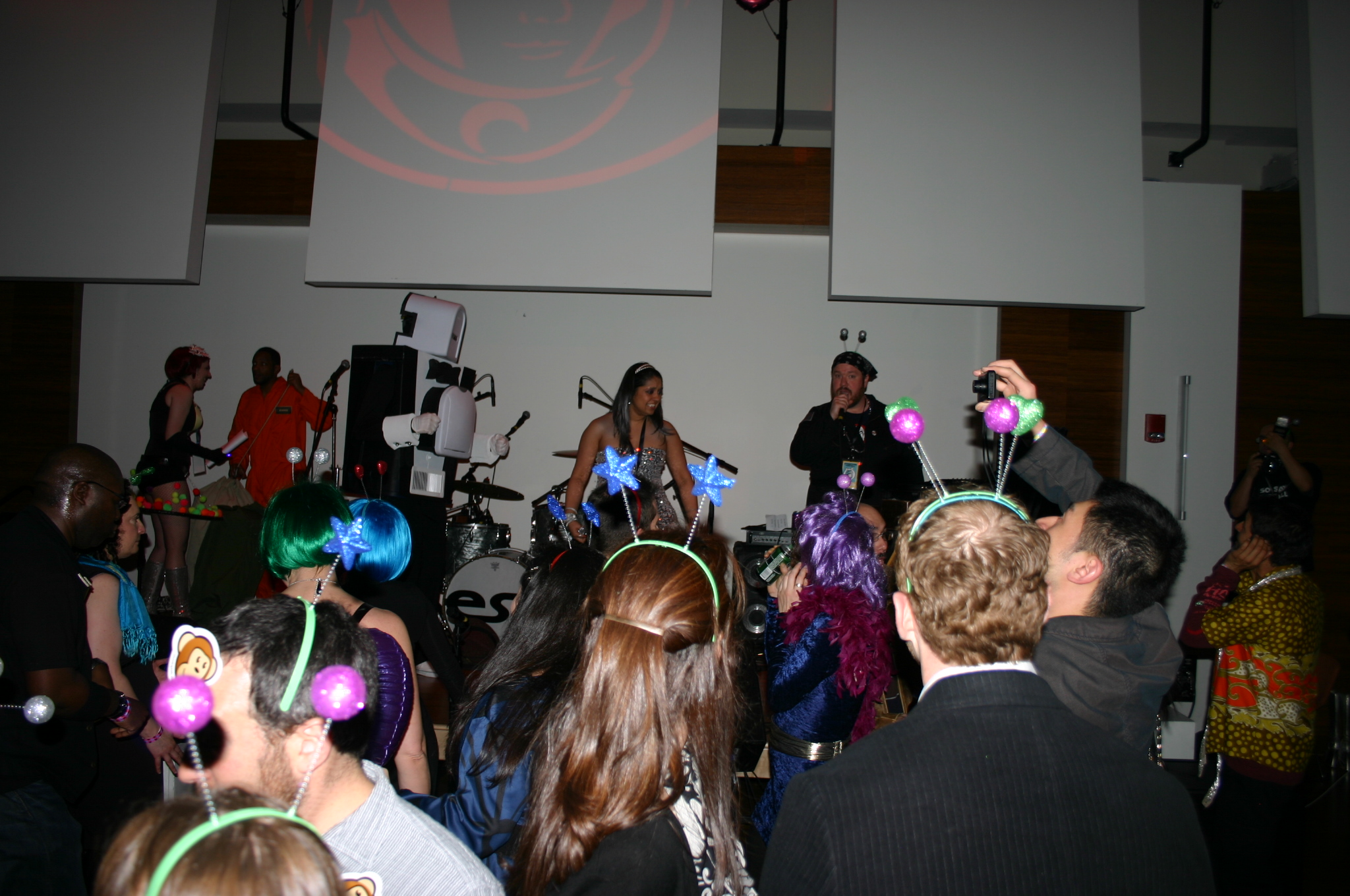 Yuri's Night Dance Party 2011, held at the Artisphere in Rosslyn, Virginia.